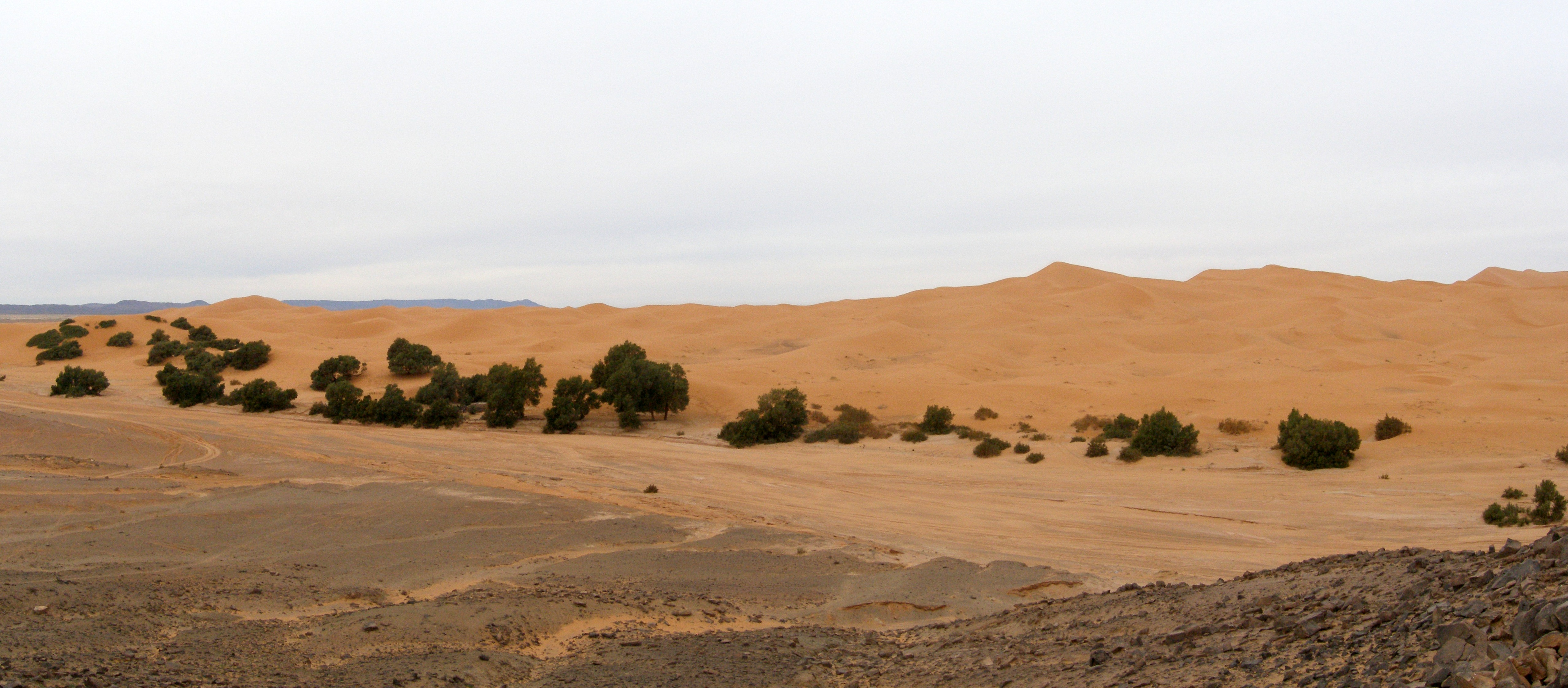 The dunes of Erg Chebbi, Morocco. Panorama of 3 pictures stitched with AutoStitch.